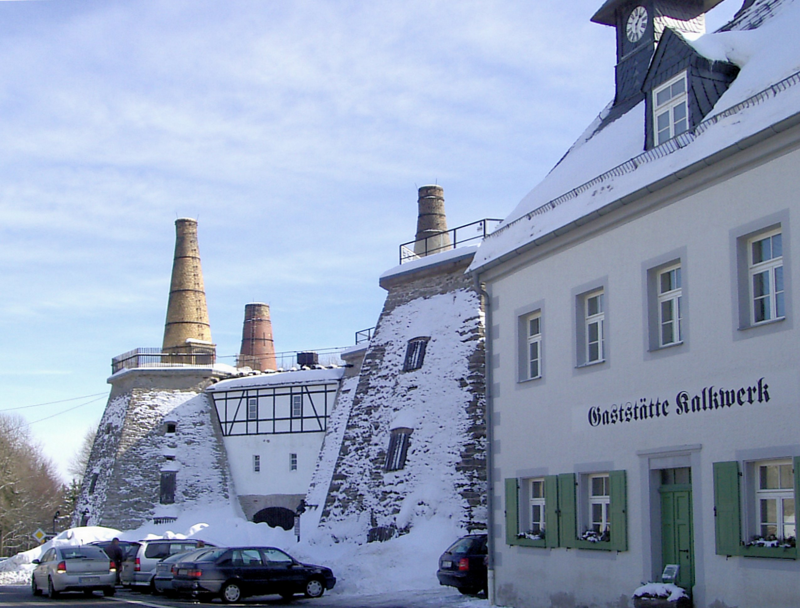 Lime mine in Lengefeld, Ore Mountains, Germany